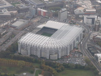 Aerial view of St James Park